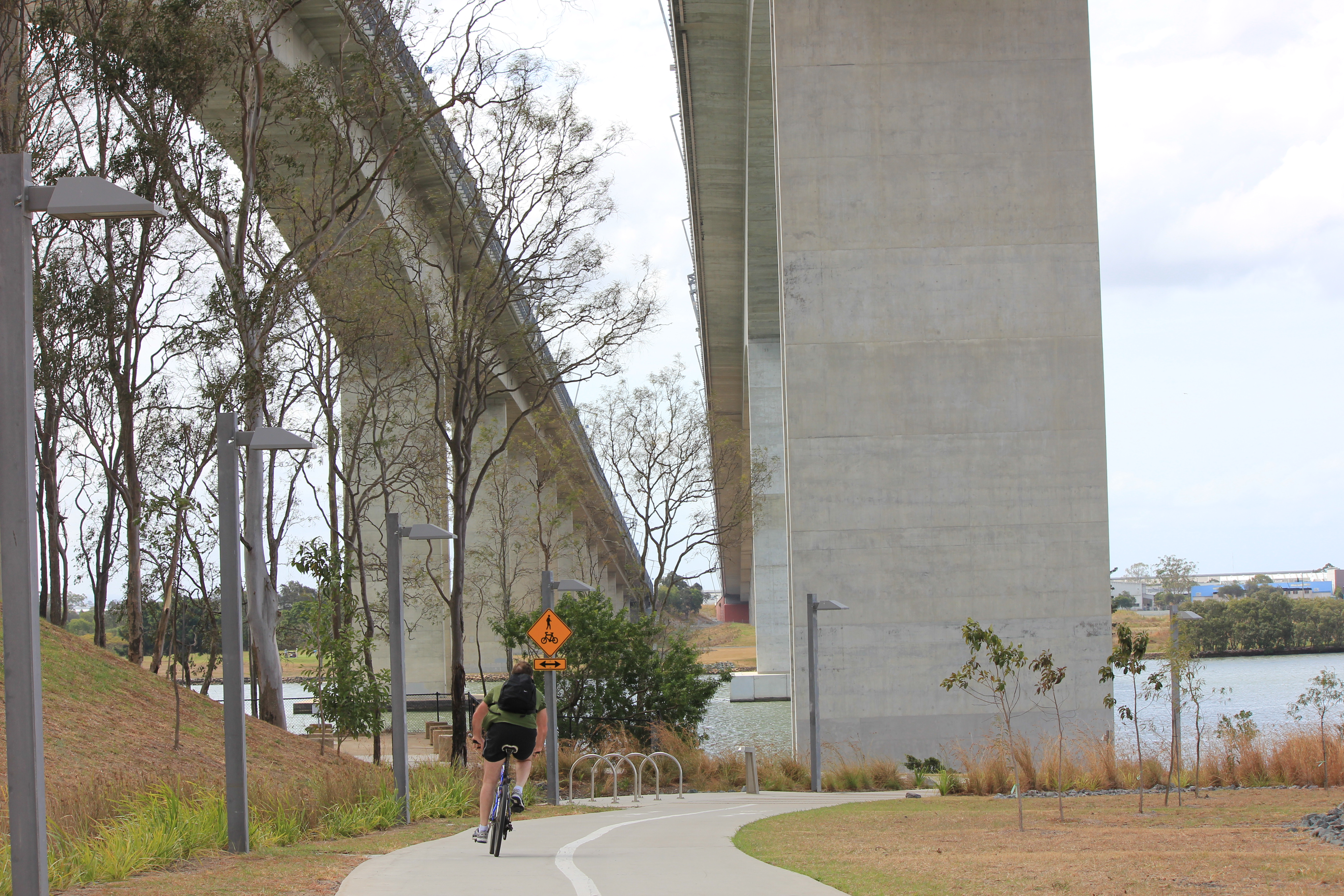 Improved access to amenities